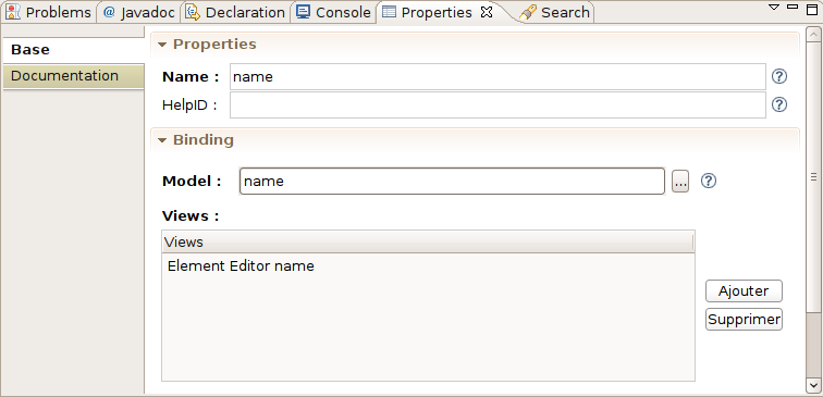 Screenshot of the open source project EEF